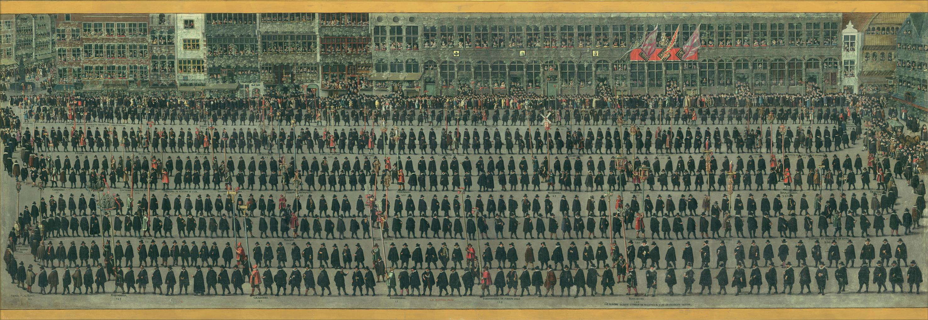 This is the procession of the guilds from the Ommeganck (Ommegang) in Brussels on 31 May 1615. It is one of a series of six paintings by Denis van Alsloot commemorating the event, which was also a triumphal pageant for Archduchess Isabella.